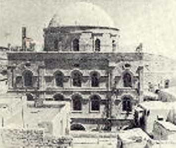 The Tiferes Yisroel Synagogue, Old City of Jerusalem.